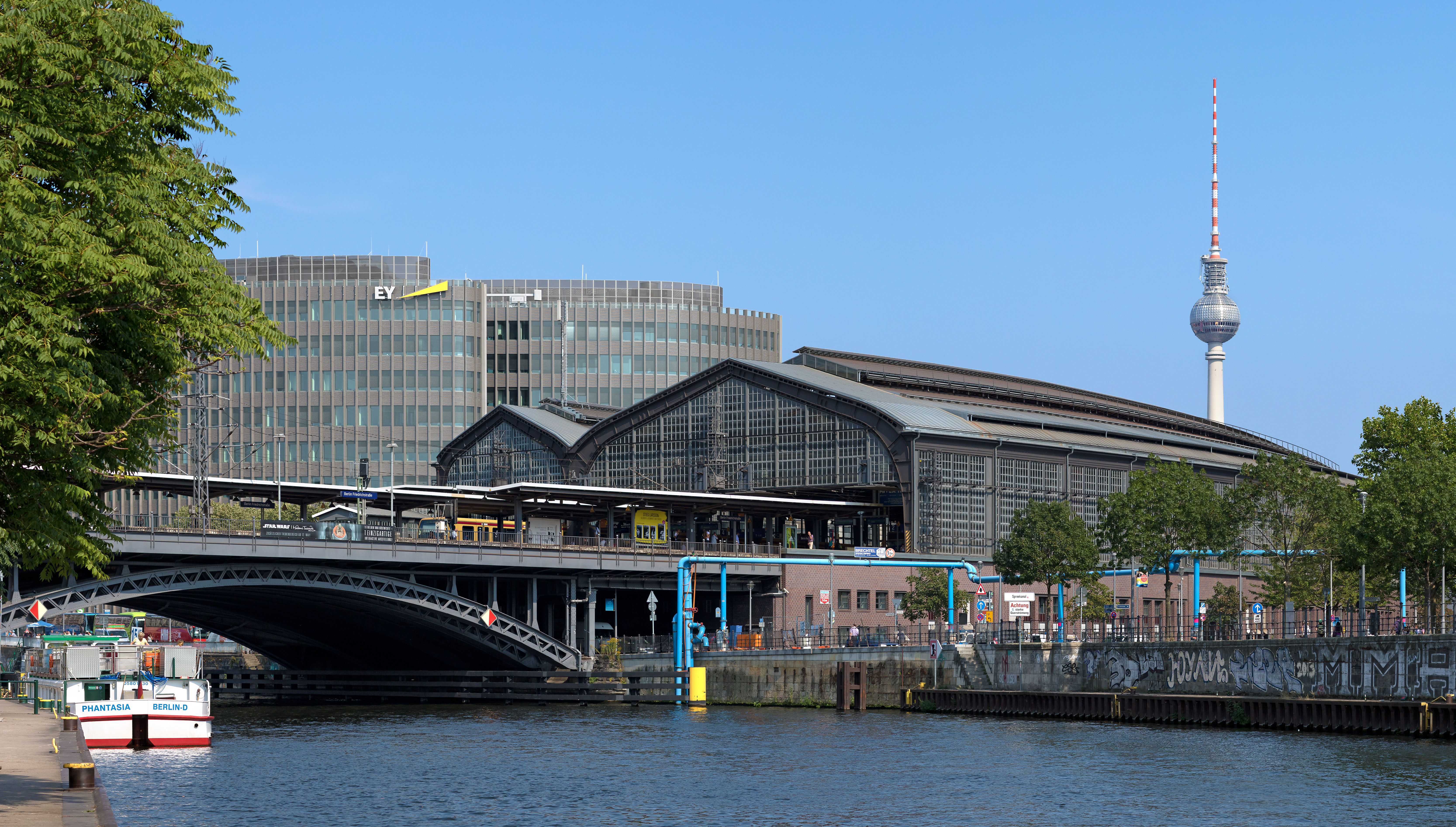 The Friedrichstraße station in Berlin, detail view from Schiffbauerdamm over the Spree with Spreedreieck-building and the Fernsehturm Berlin near Alexanderplatz.